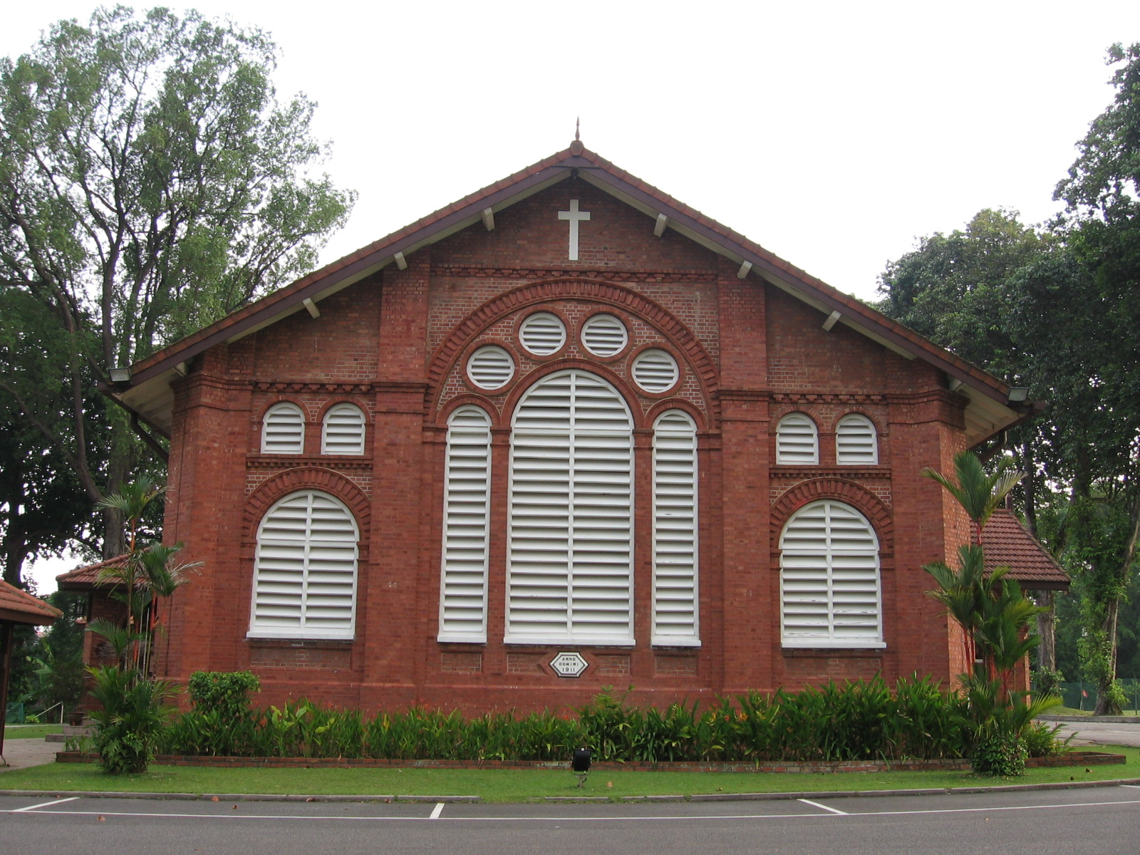 Saint George's Church, Singapore.